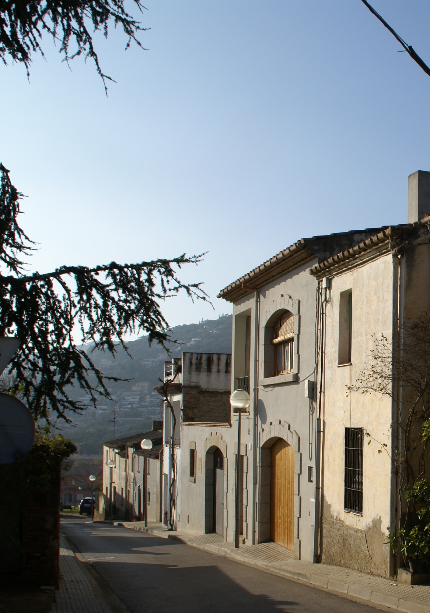 House where Pere Rosselló was born - Calonge, Girona, Catalonia